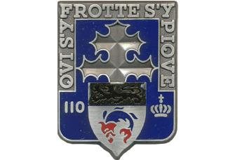 Regimental badge of the 110th Infantry Regiment (France).